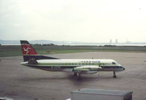 Saab SF340A of Manx Airlines at Liverpool